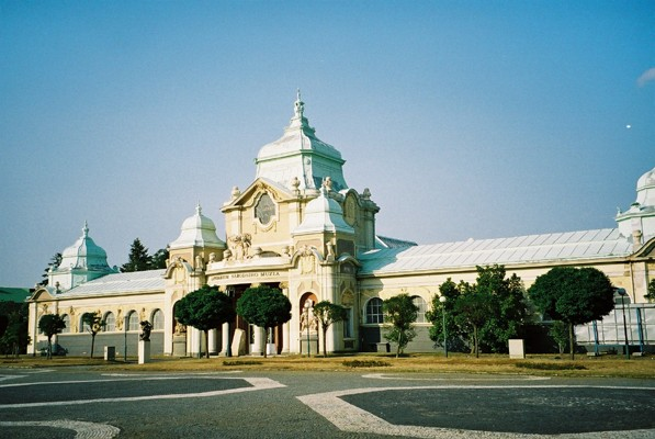 Prague, Lapidarium museum with 400 stone sculpures. Zman 11:12, 30 July 2006 (UTC)